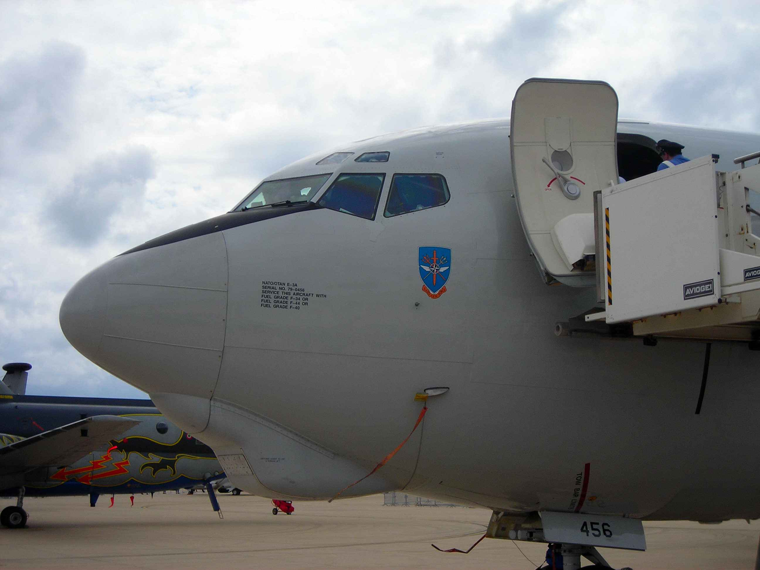 Nose of AWCS aircraft E-3 Sentry. Picture taken during "Giornata Azzurra" 2006 (Italian Air Force airshow) at Pratica di Mare AFB, Italy.